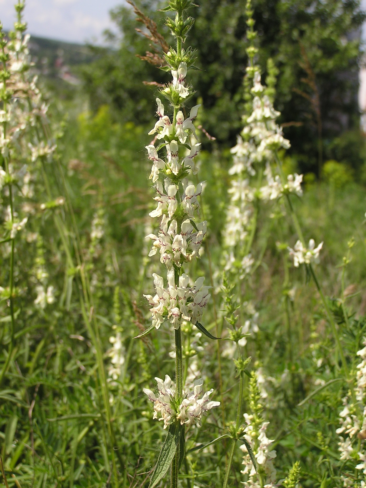 Plant